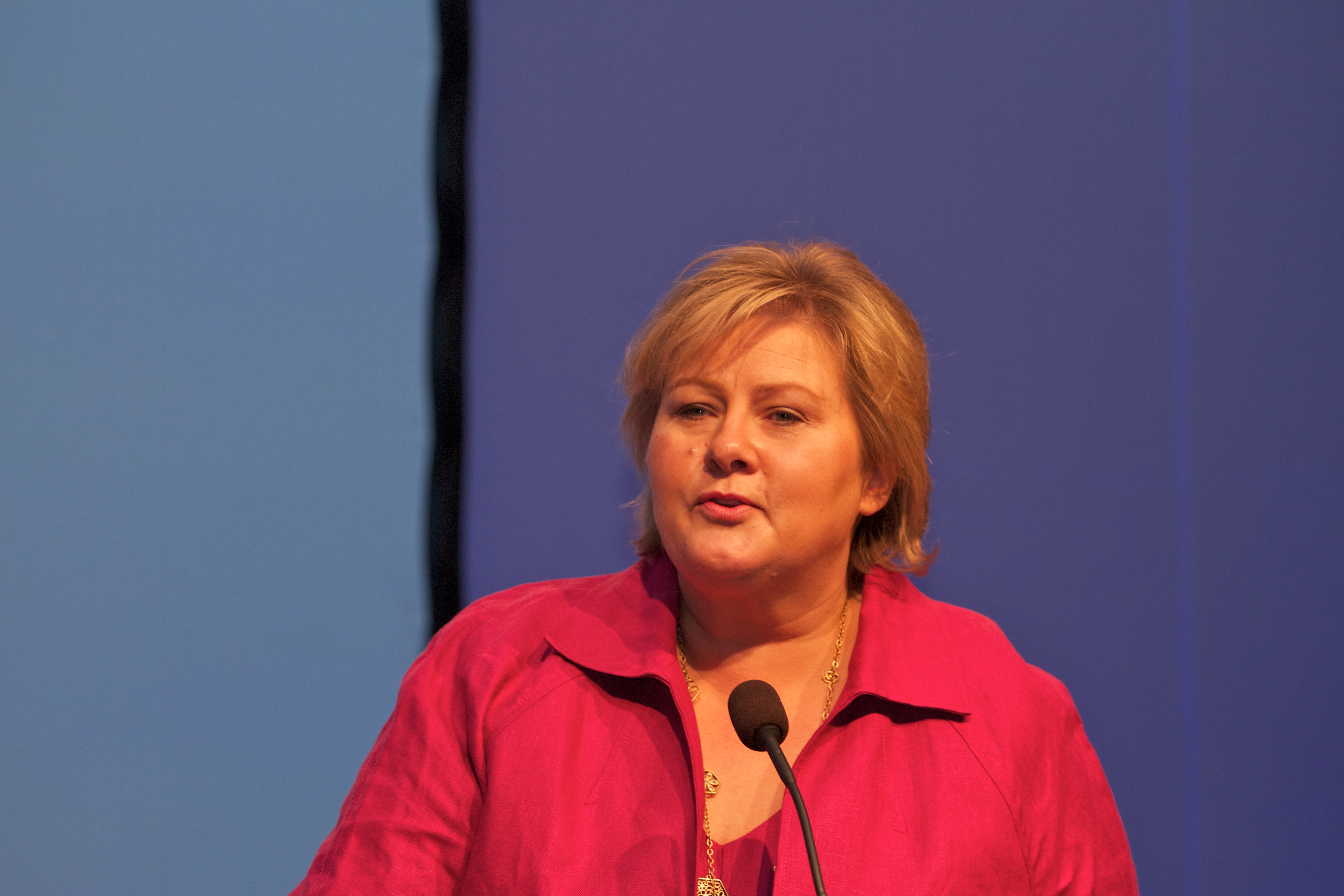 Erna Solberg, Norwegian conservative politician.